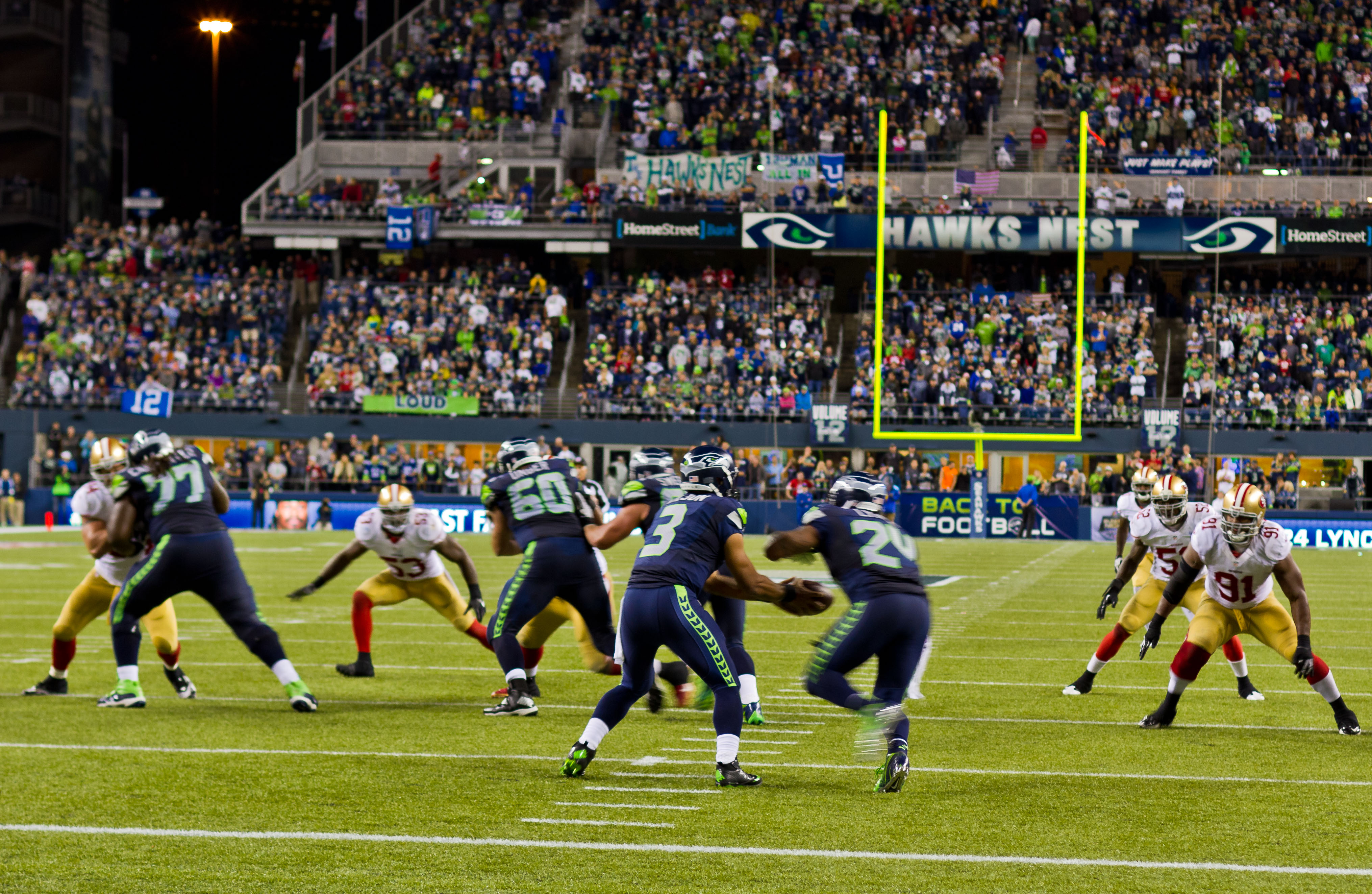 Russell Wilson hands off the football to Marshawn Lynch.